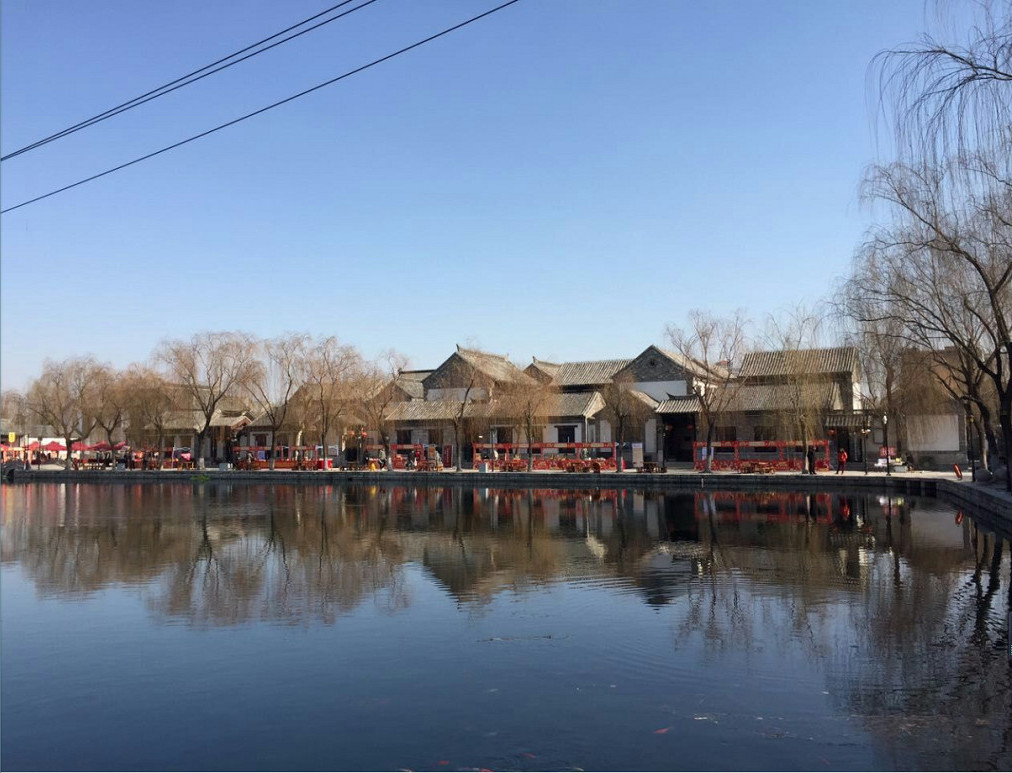 Hundred Flower Pond, Jinan, Shandong, China in Feb. 2017.